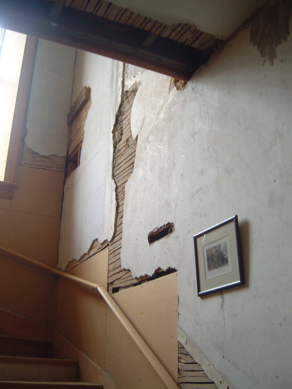 Interior plaster wall, at The School of Restauration Arts at Willowbank, Queenston, Ontario, Canada.